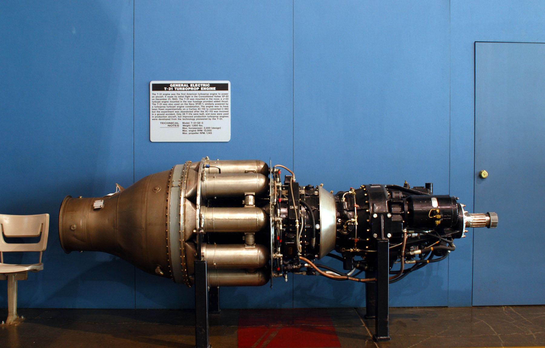 General Electric T31 at Presidential Gallery, National Museum of the United States Air Force